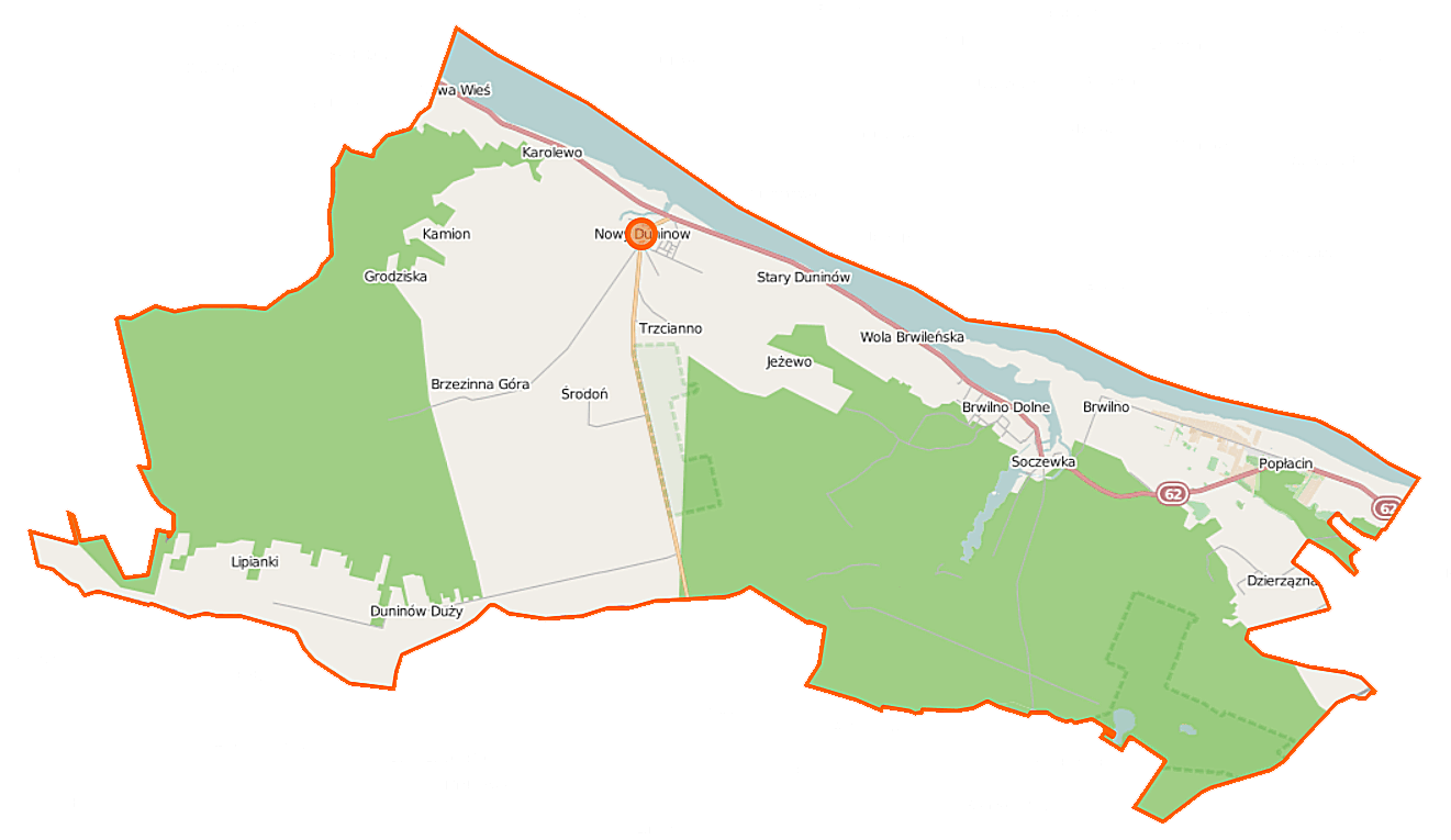 Map of Gmina Nowy Duninów, Poland This map of Nowy Duninów (gmina) was created from OpenStreetMap project data, collected by the community. This map may be incomplete, and may contain errors. Don't rely solely on it for navigation. Border coordinates52.615119.3125←↕→19.674452.4877